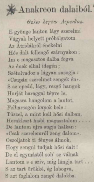 Poem of Anacreon translated by Bedőházi János